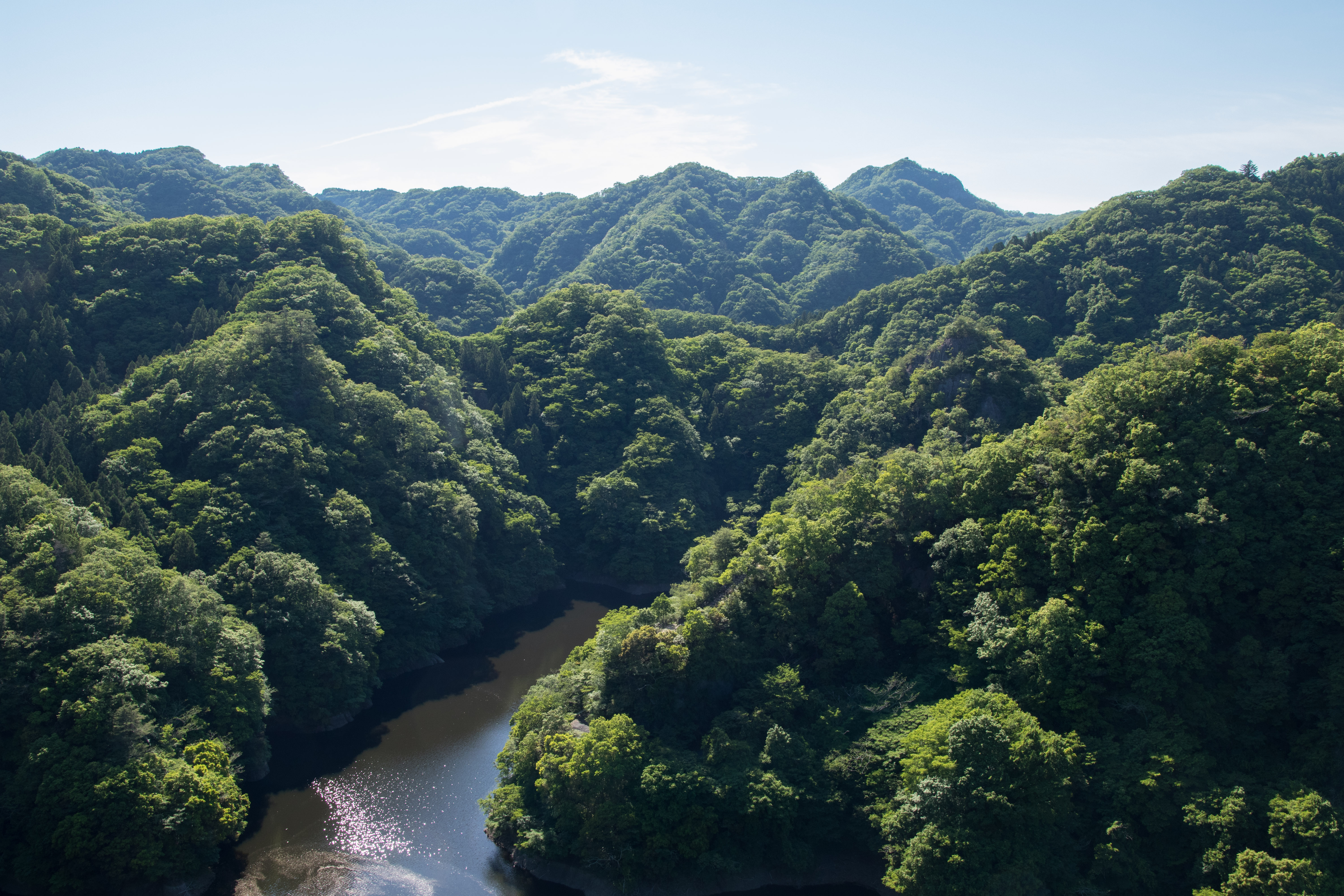 Mount Myo(Myo-yama), Hitachi-omiya City, Ibaraki Pref., Japan